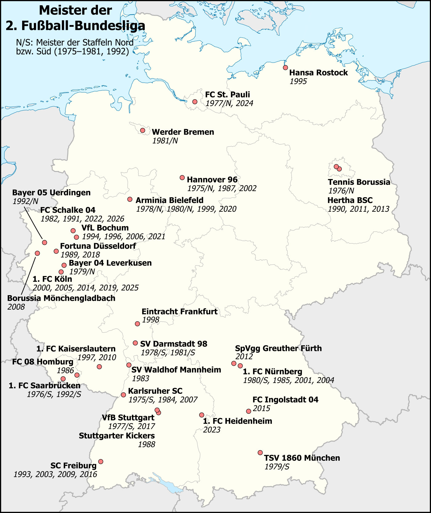 Map of German Second-League Soccer Champions, starting 1975